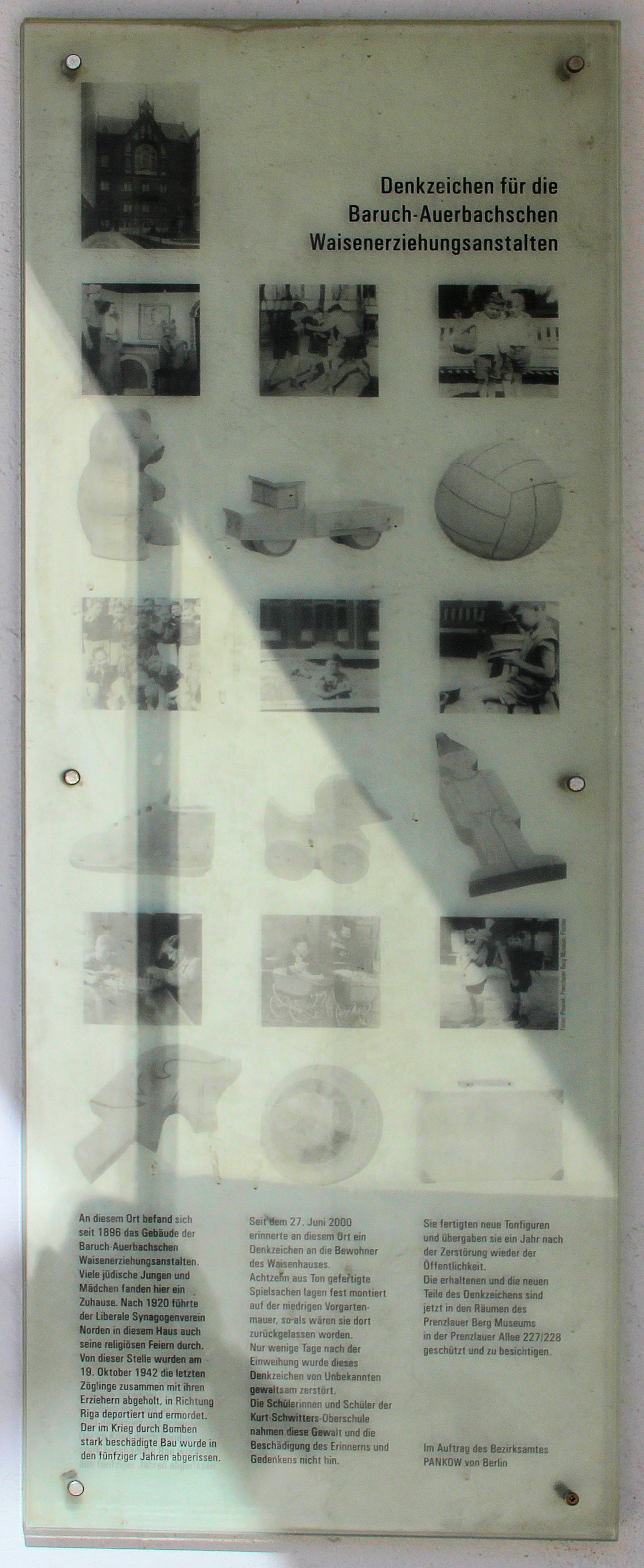 Memorial plaque, Baruch Auerbach'sche Waisenhaus, Schönhauser Allee 162, Berlin-Prenzlauer Berg, Germany Koordinate:52°32′9″N 13°24′43″E / 52.53583°N 13.41194°E